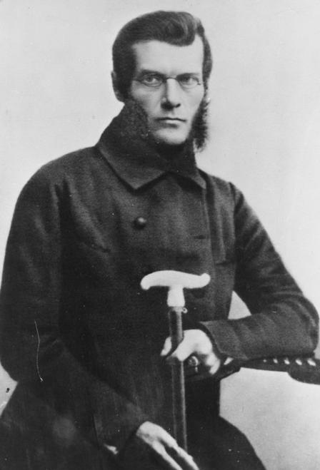 Photograph of Ivan Kireyevsky (1806-56).